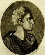 Image of Mario Equicola (1470-1525), writer of De natura d'amore and the history of Mantua, from the Biografia degli uomini illustri del Regno di Napoli, edition by Gervasi, Naples 1822-1829.